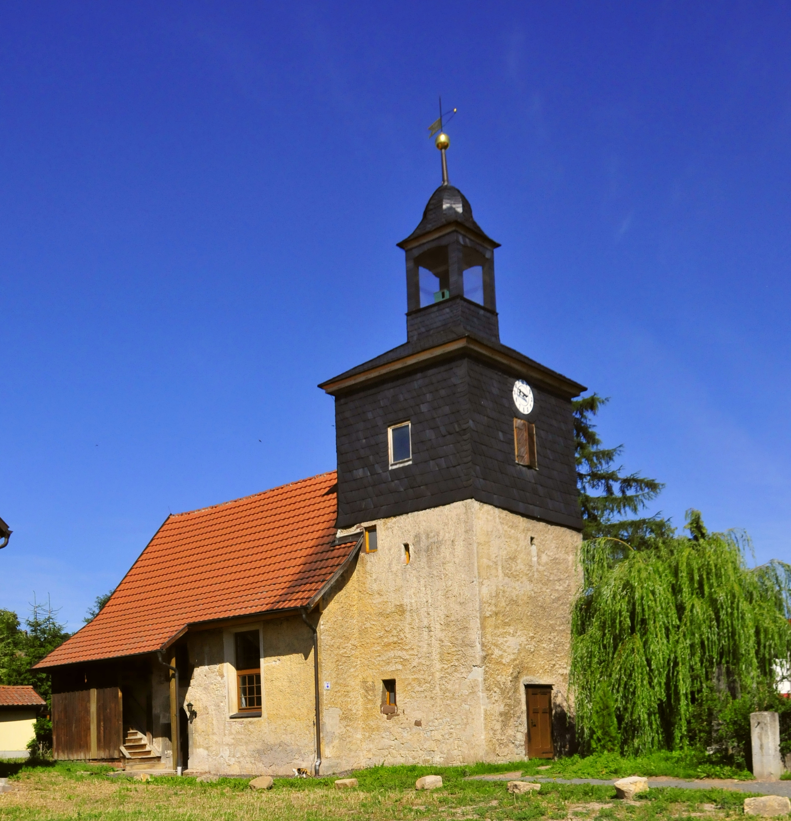 Church in Cumbach (Ernstroda)